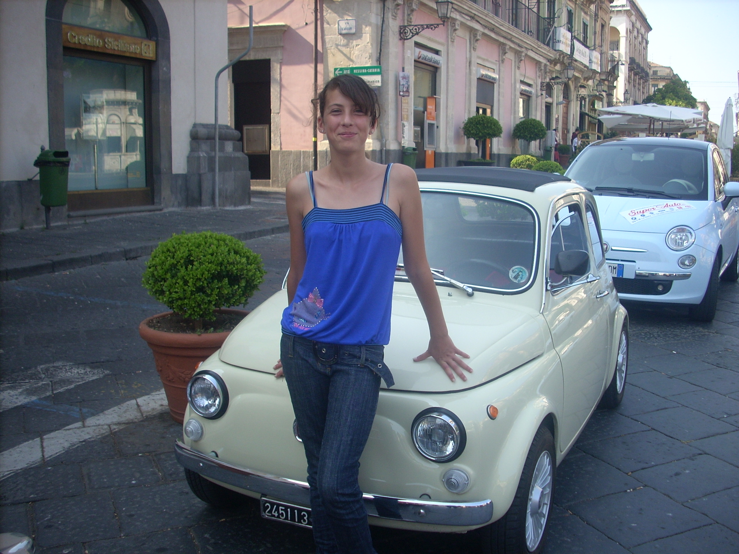 Sicilian teenage girl with Fiat 500